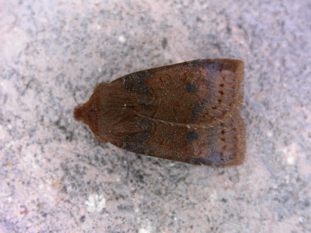 Conistra vaccinii, to MV light, Hellerup, Denmark, 14 October 2005